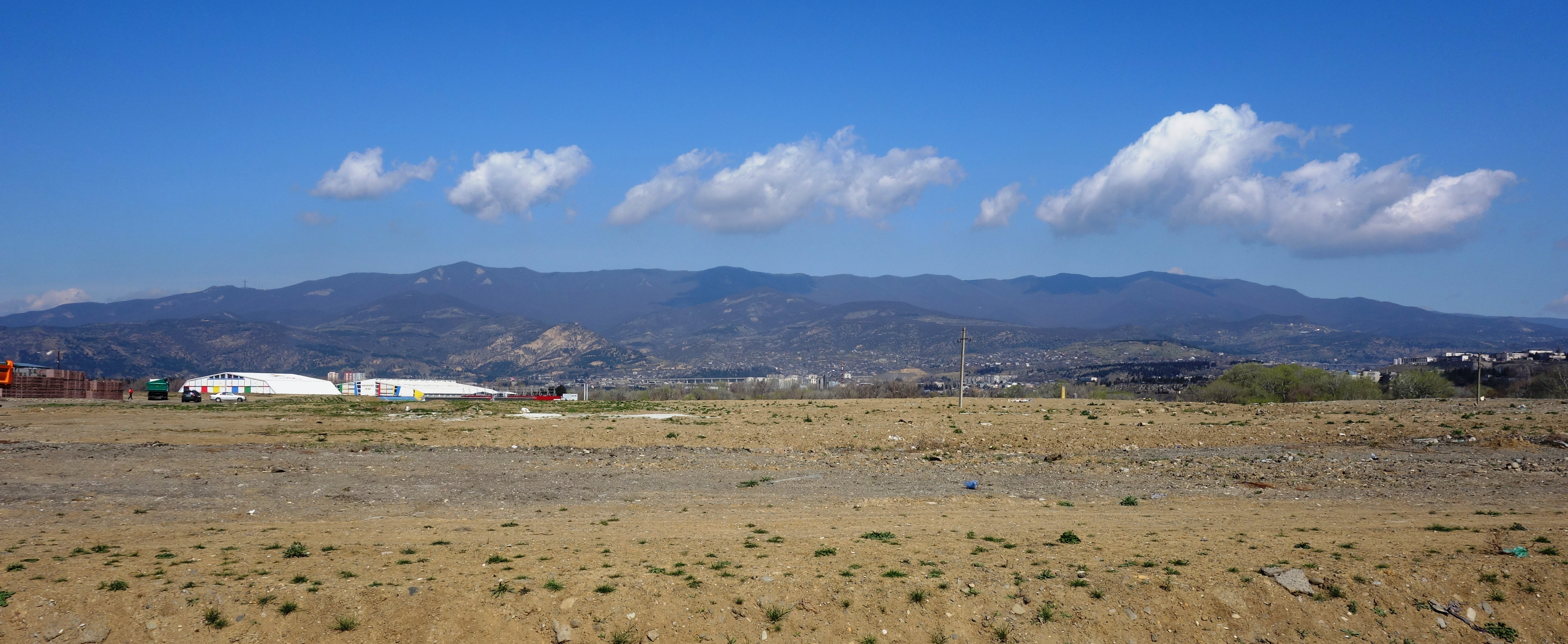 Saguramo Mountain Range (view from Dighomi Bridge, Tbilisi), Georgia